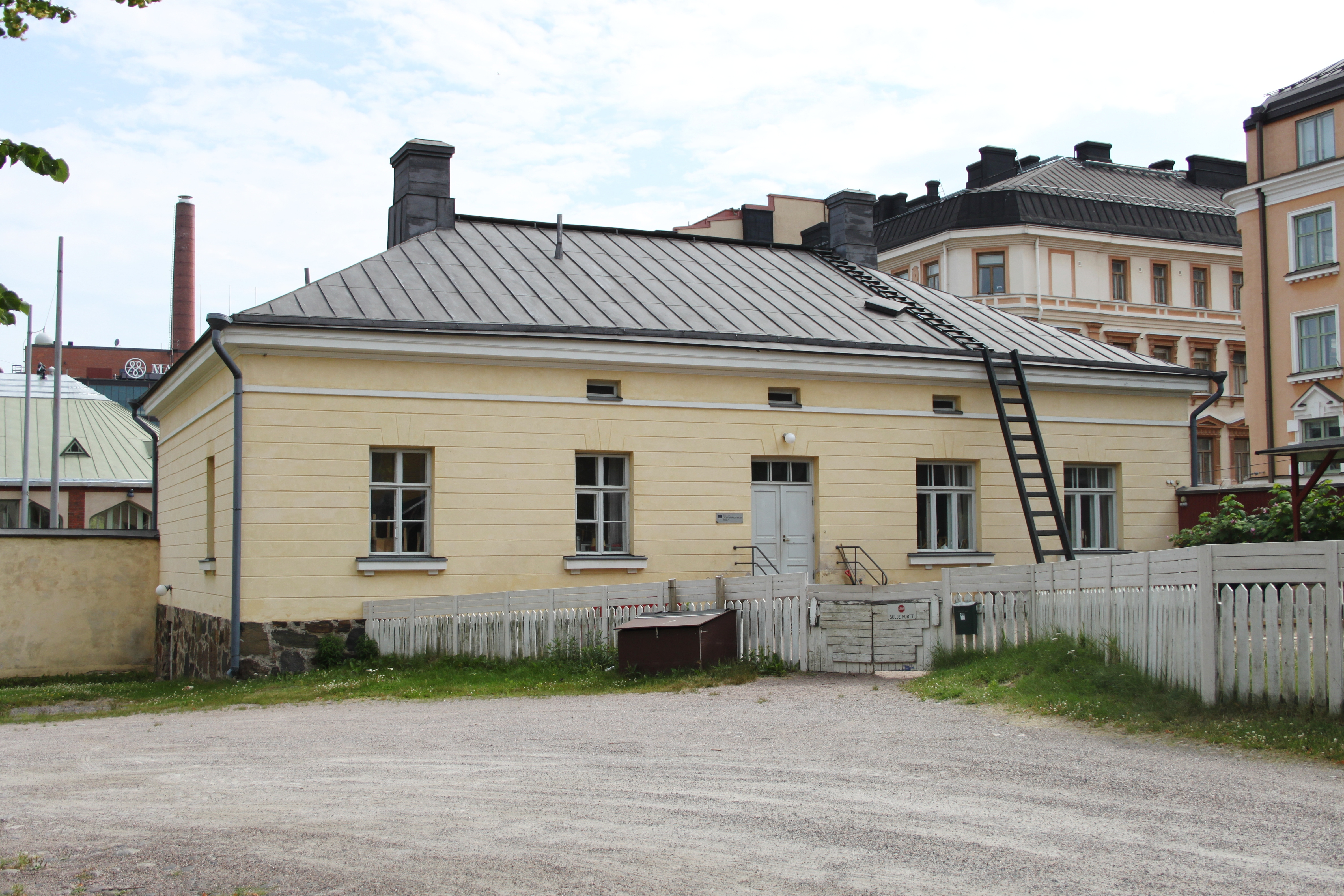 Hietalahdenkatu 1, Helsinki. Architecht: Carl Ludvig Engel. Built 1835.